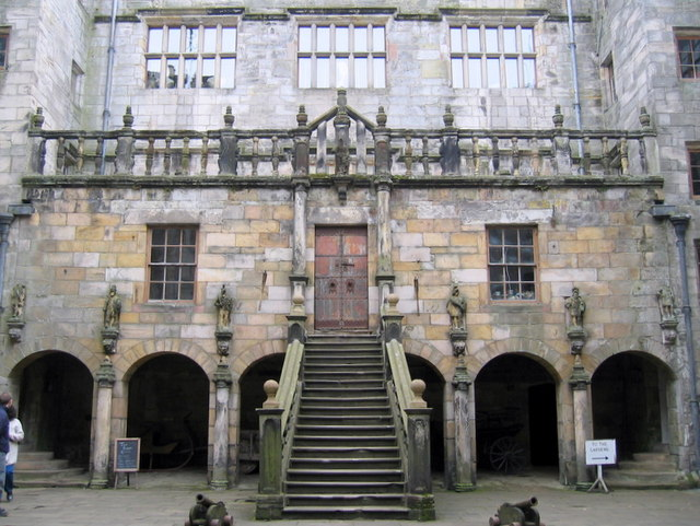 Chillingham Castle, rear of courtyard